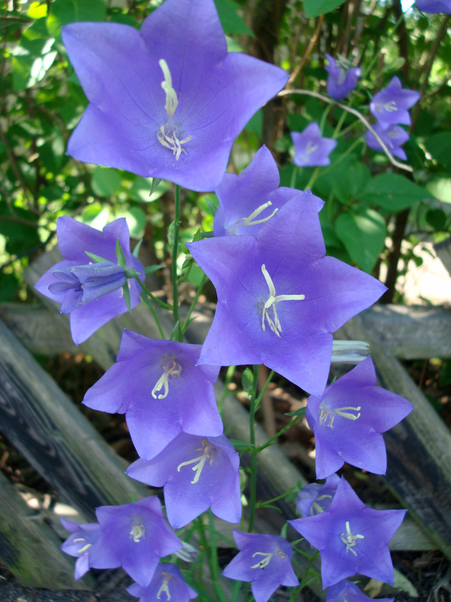 Peach-leaved Bellflower